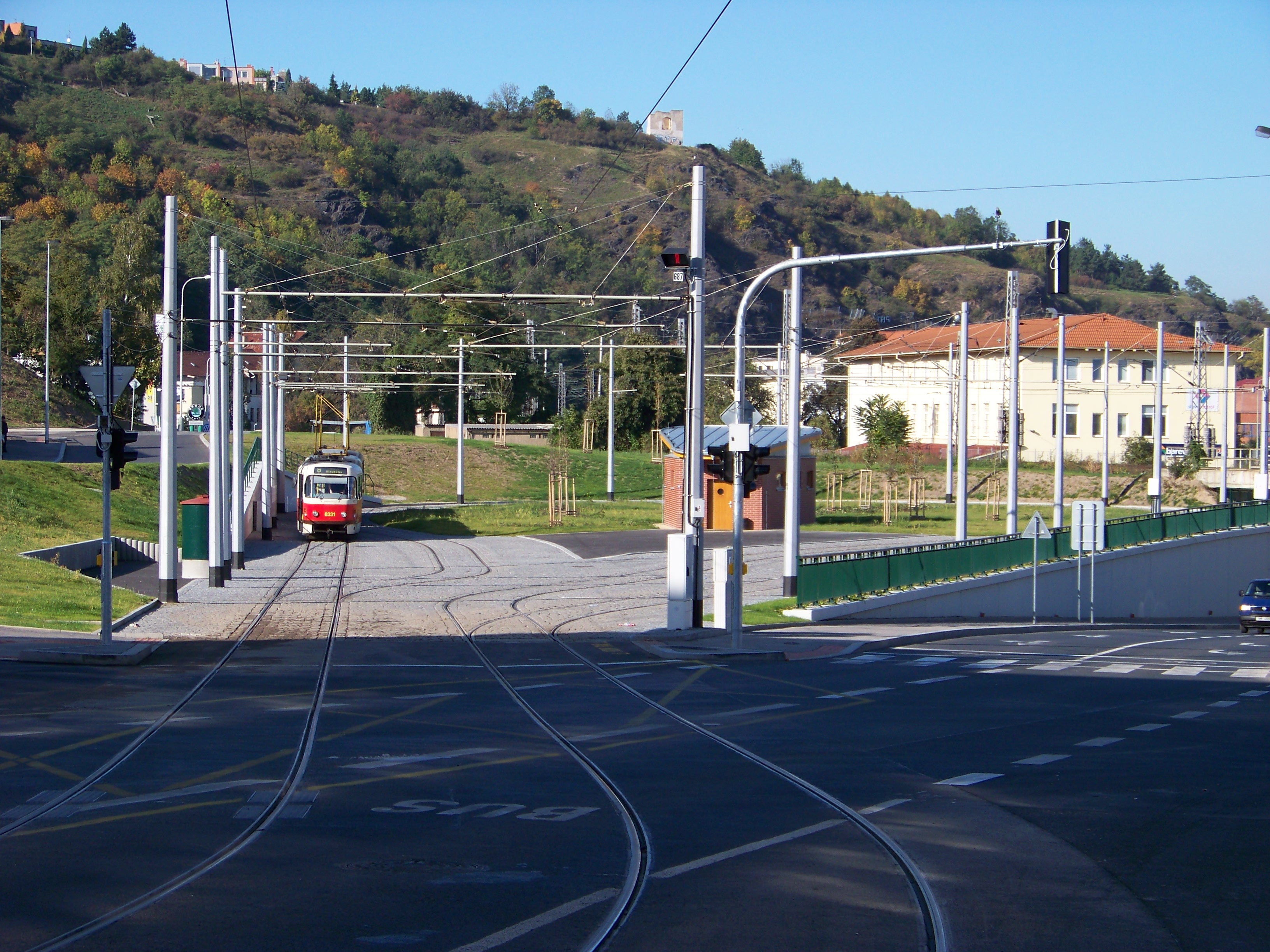 Prague-Dejvice and Bubeneč, the Czech Republic. Tram loop Podbaba. - Google Maps - Google Earth